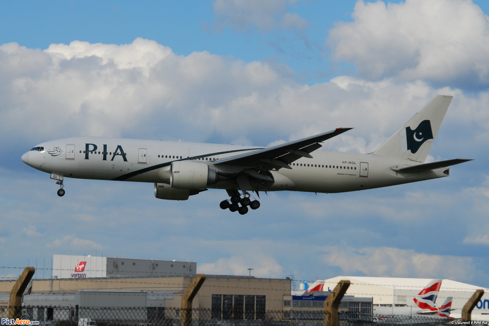 Photo prise à l'aéroport de Londres-Heathrow (EGLL) au Royaume-Uni. Picture take at London-Heathrow Airport (EGLL) in UK.